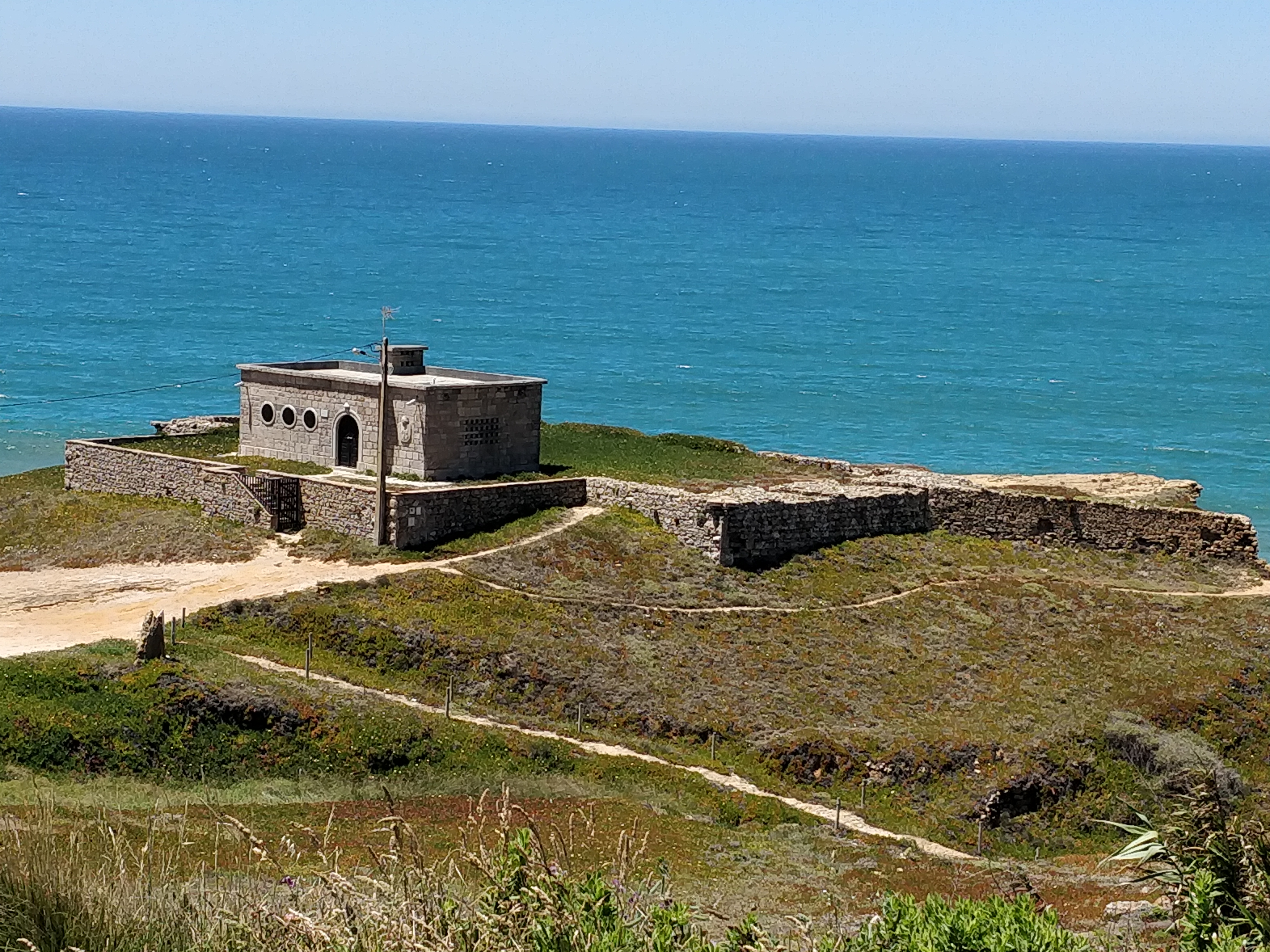 The Fort of Santa Susana, also known as the Fort of São Lourenço, near Ericeira, Sintra, Portugal